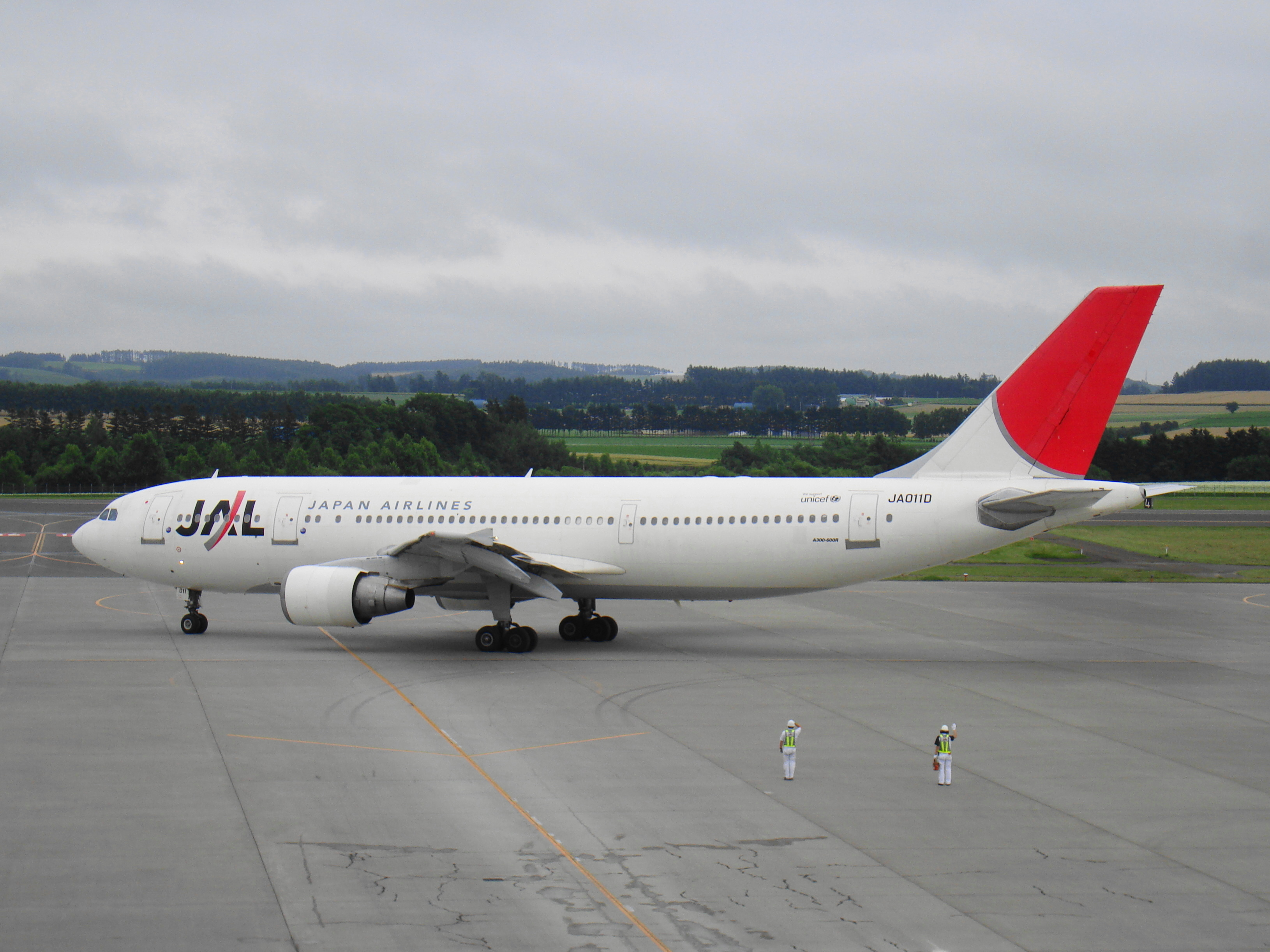 Japan Airlines Airbus A300-600R JA011D